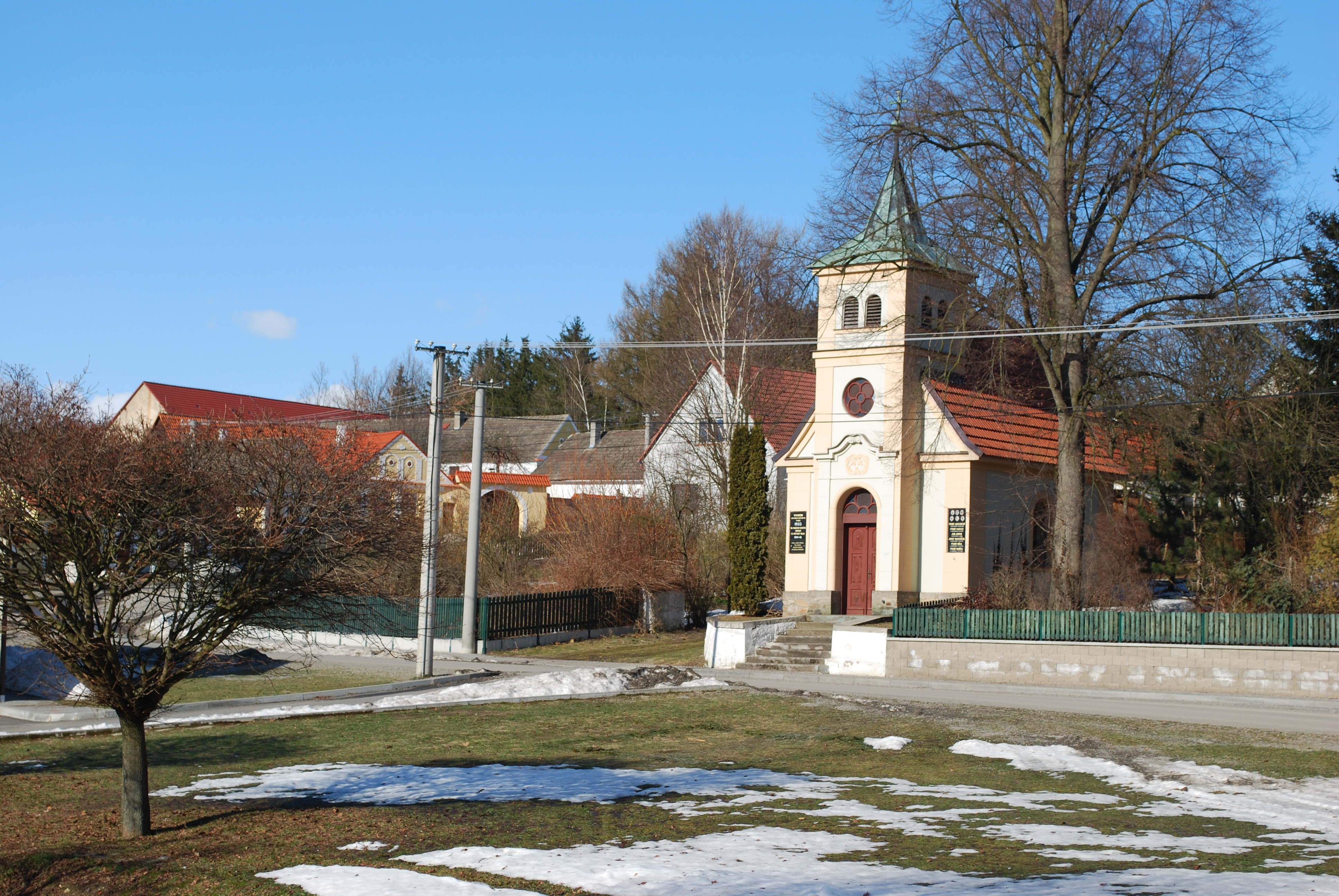 Rybova Lhota village, part of village Skalice in Tábor District, Czech Republic. Chapel. This photograph was taken within the scope of the 'Czech Municipalities Photographs' grant. - OpenStreetMap(Info)